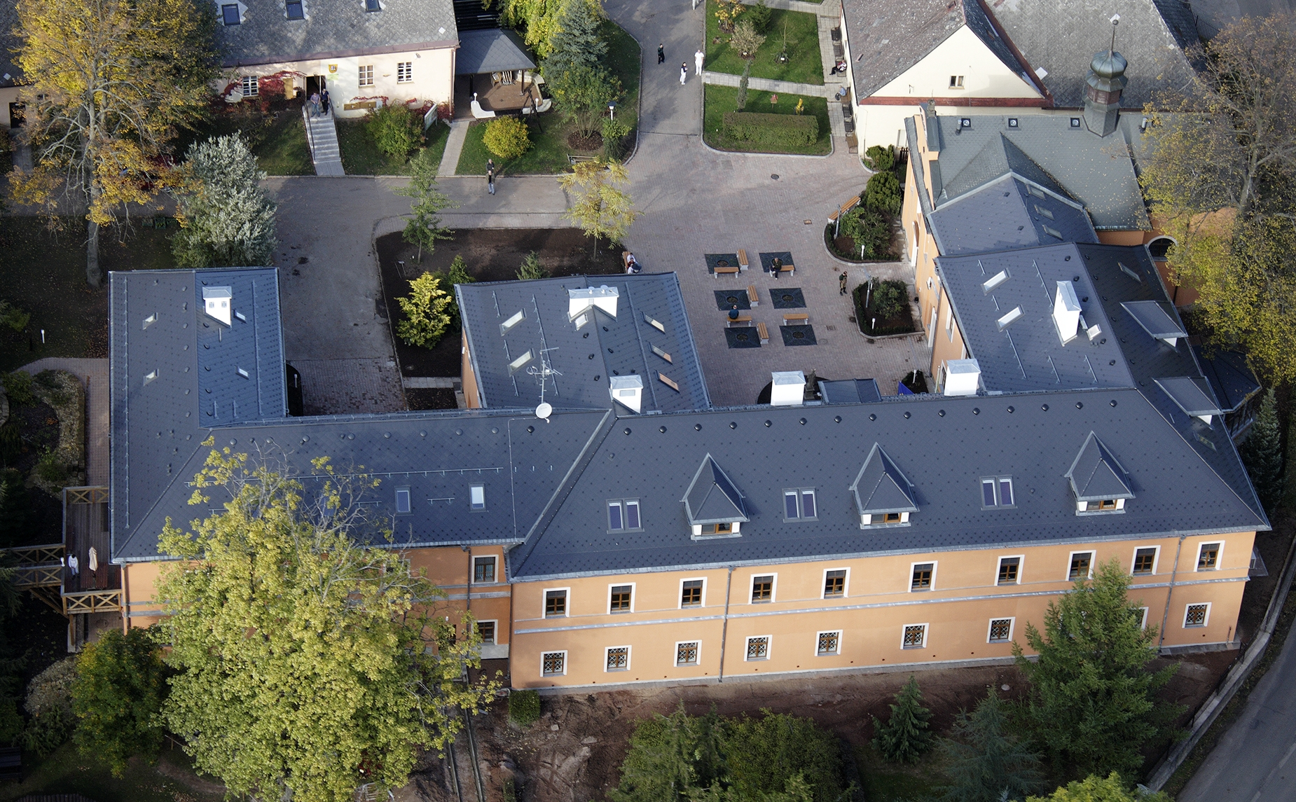 Zámecká budova po rekonstrukci, rok 2008